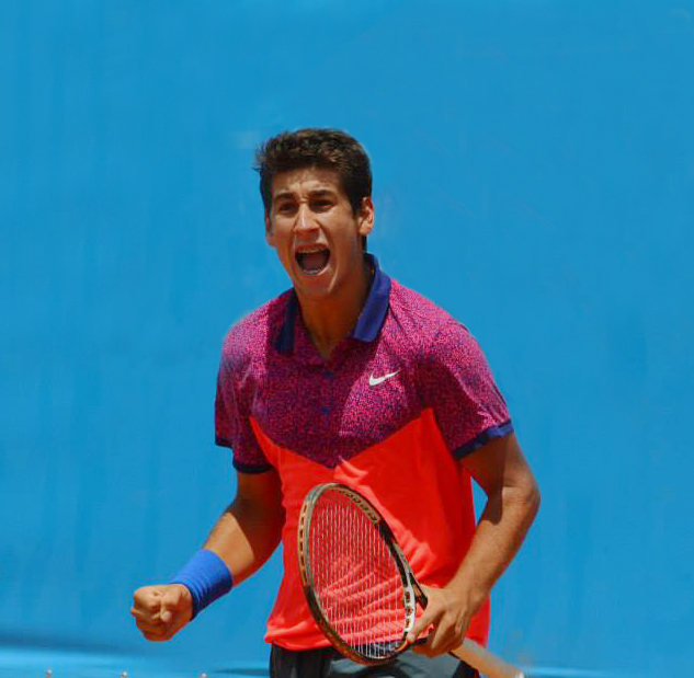 Orlando Luz, tennis player